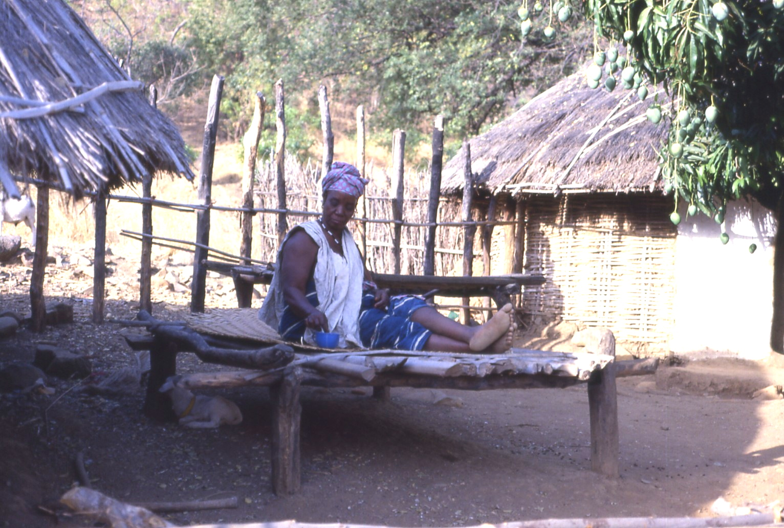 Neneh Houca, matriarch of the Diallo compound, Ibel, southeast Senegal (légèrement retouché pour les contrastes)